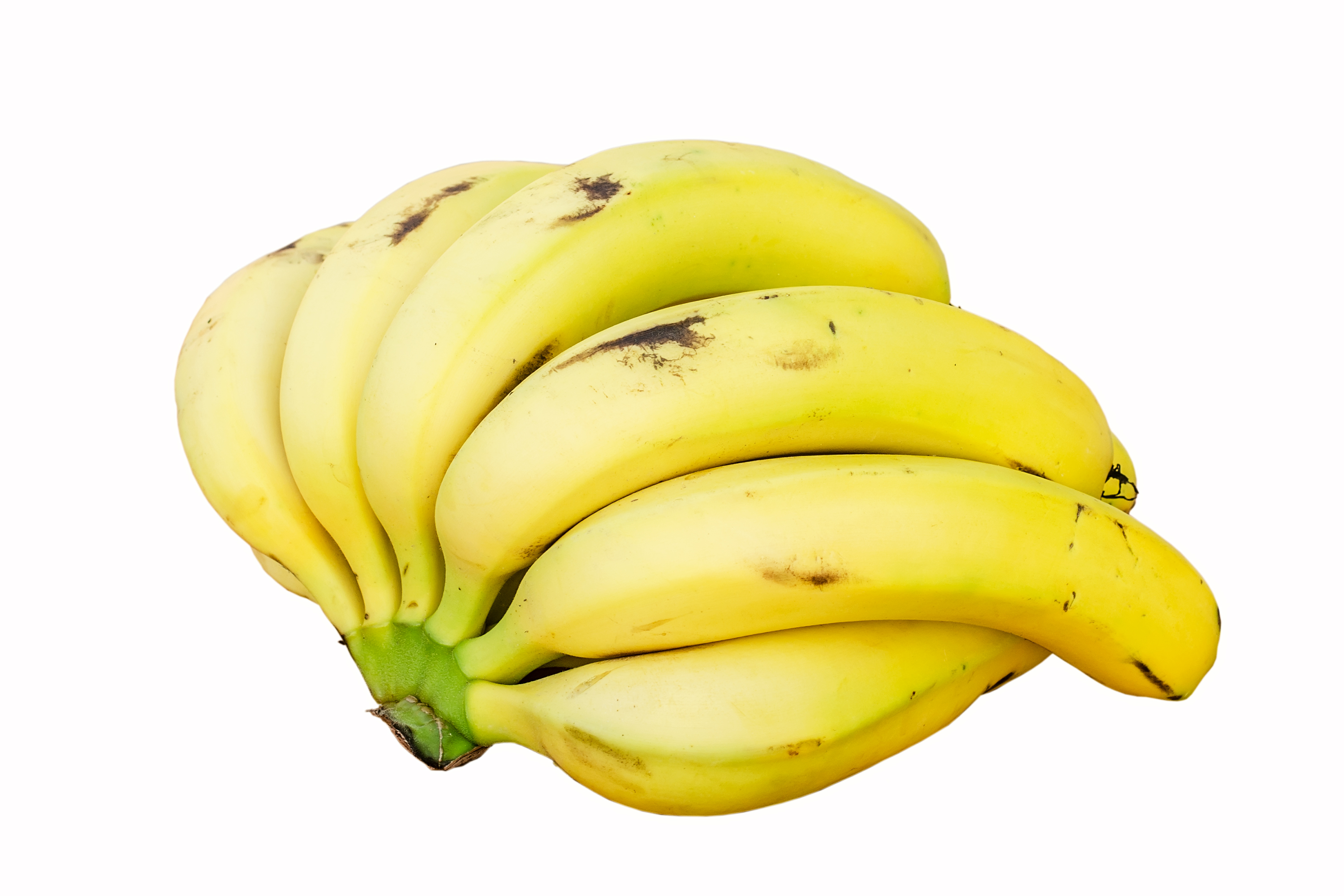 Bananas white background